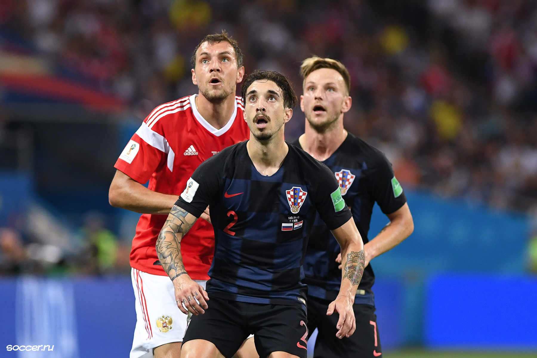 Šime Vrsaljko at the 2018 World Cup